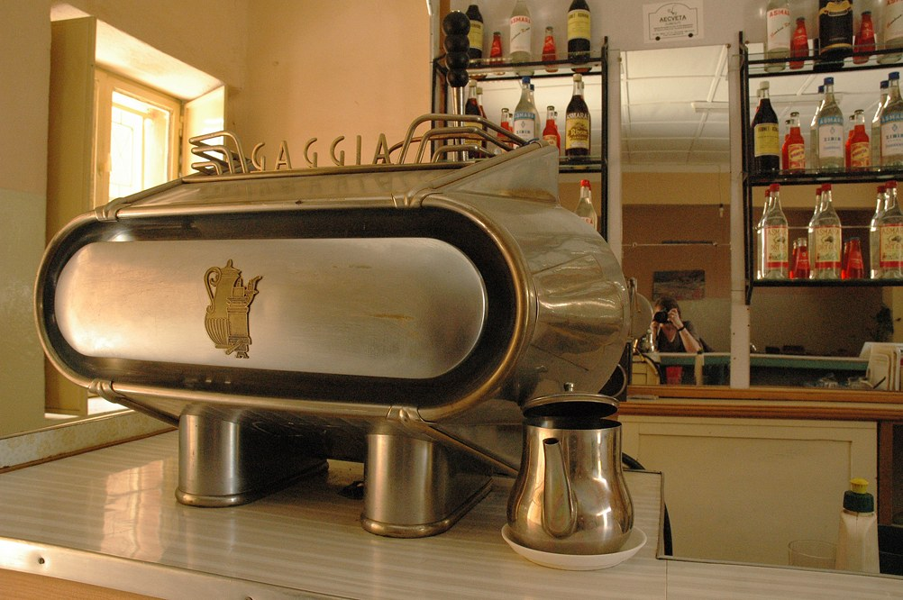 The Gaggia espresso machine - Italy (photo taken at a bar in a small village in Eritrea).